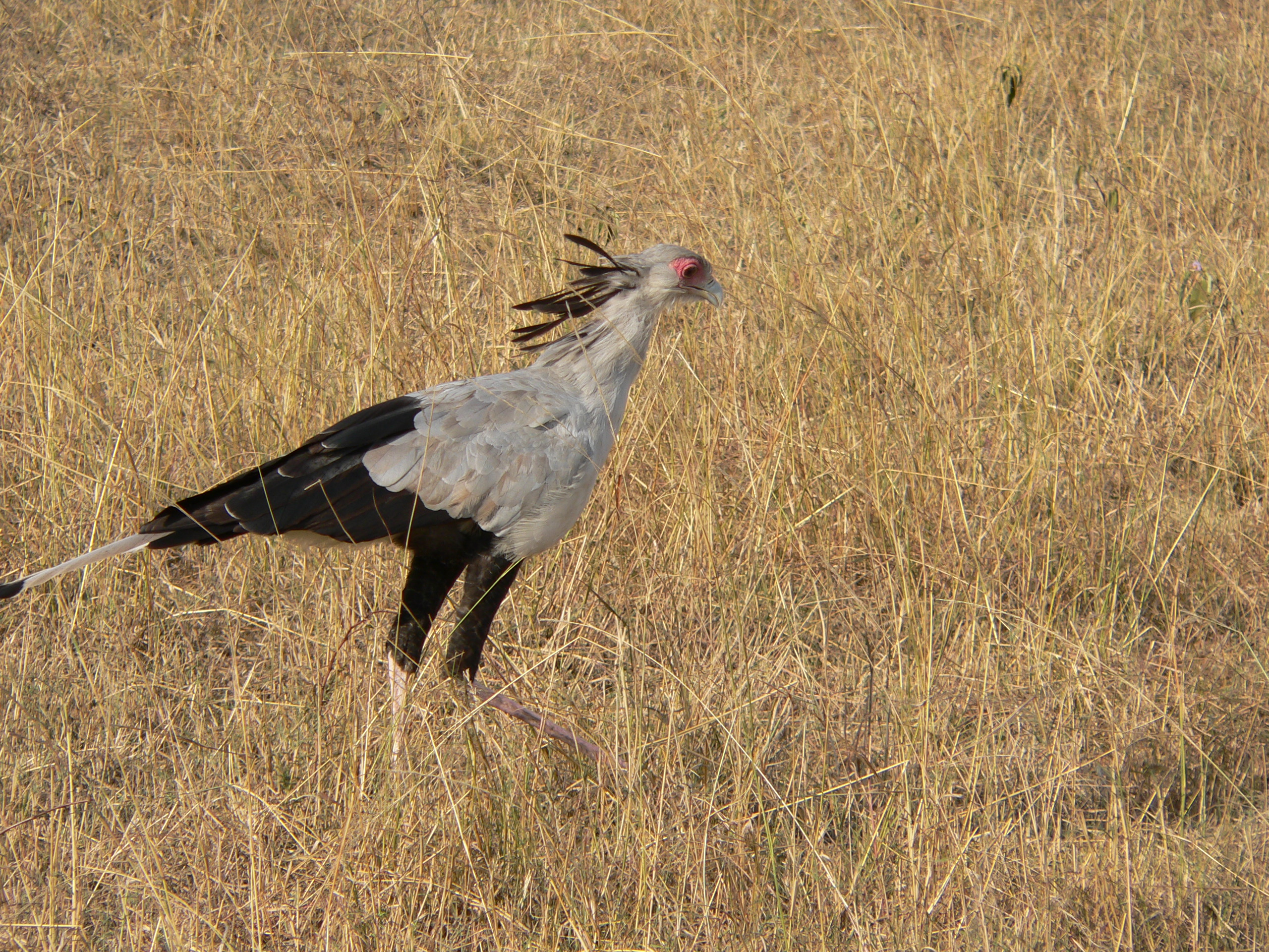 Sagittarius serpentarius, beautiful bird spotted on the Masai Mara.